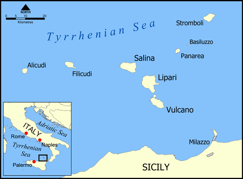 This is a map of the Aeolian Islands off the coast of Sicily, Italy in the Tyrrhenian Sea. The map shows the location of the islands of Salina, Lipari, Vulcano, Alicudi, Filicudi, Panarea, Basiluzzo, and Stromboli. Blank version available at Image:Aeolian Islands blank map.png. Created by NormanEinstein.